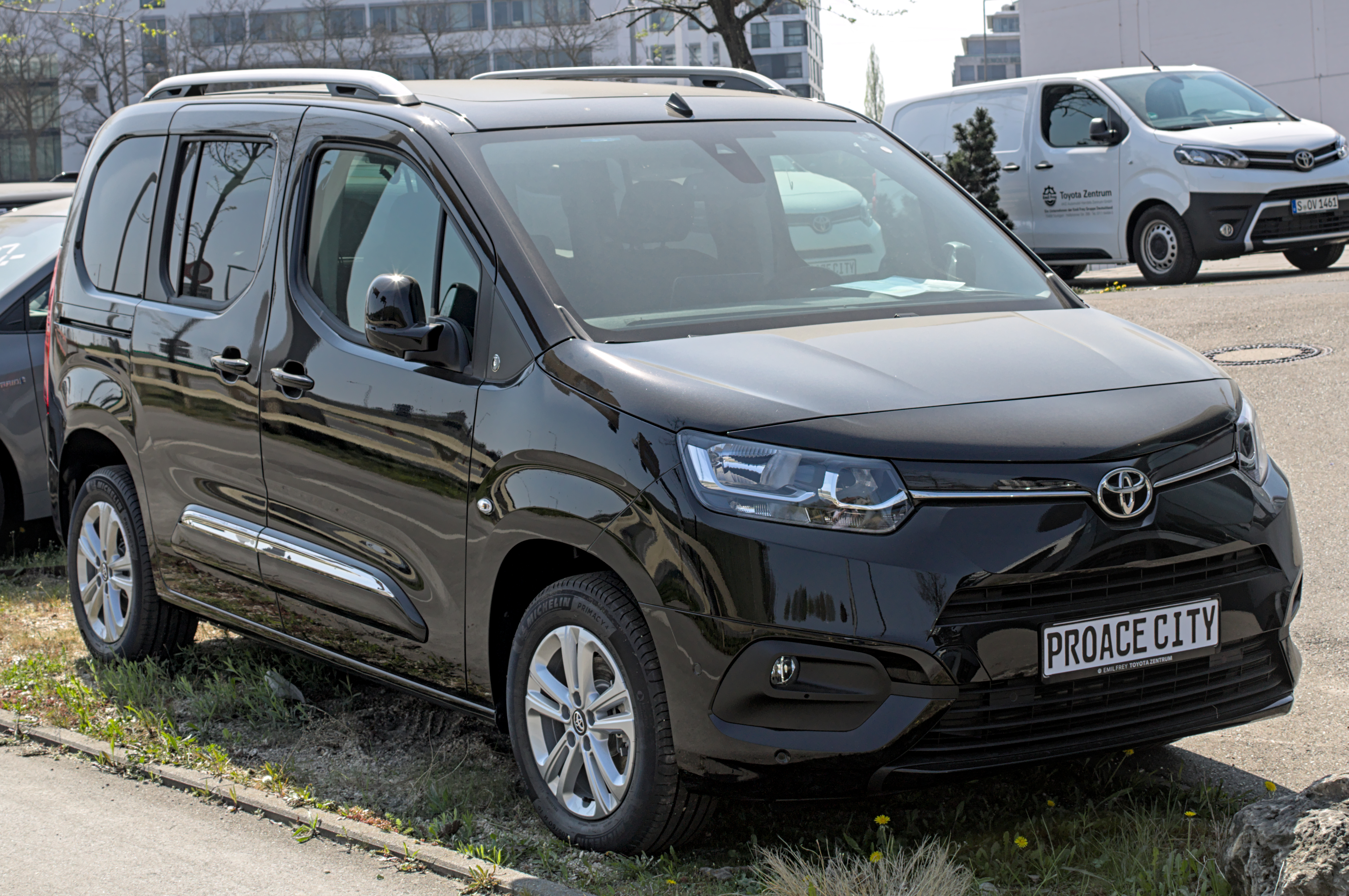 Toyota_ProAce_City in Stuttgart